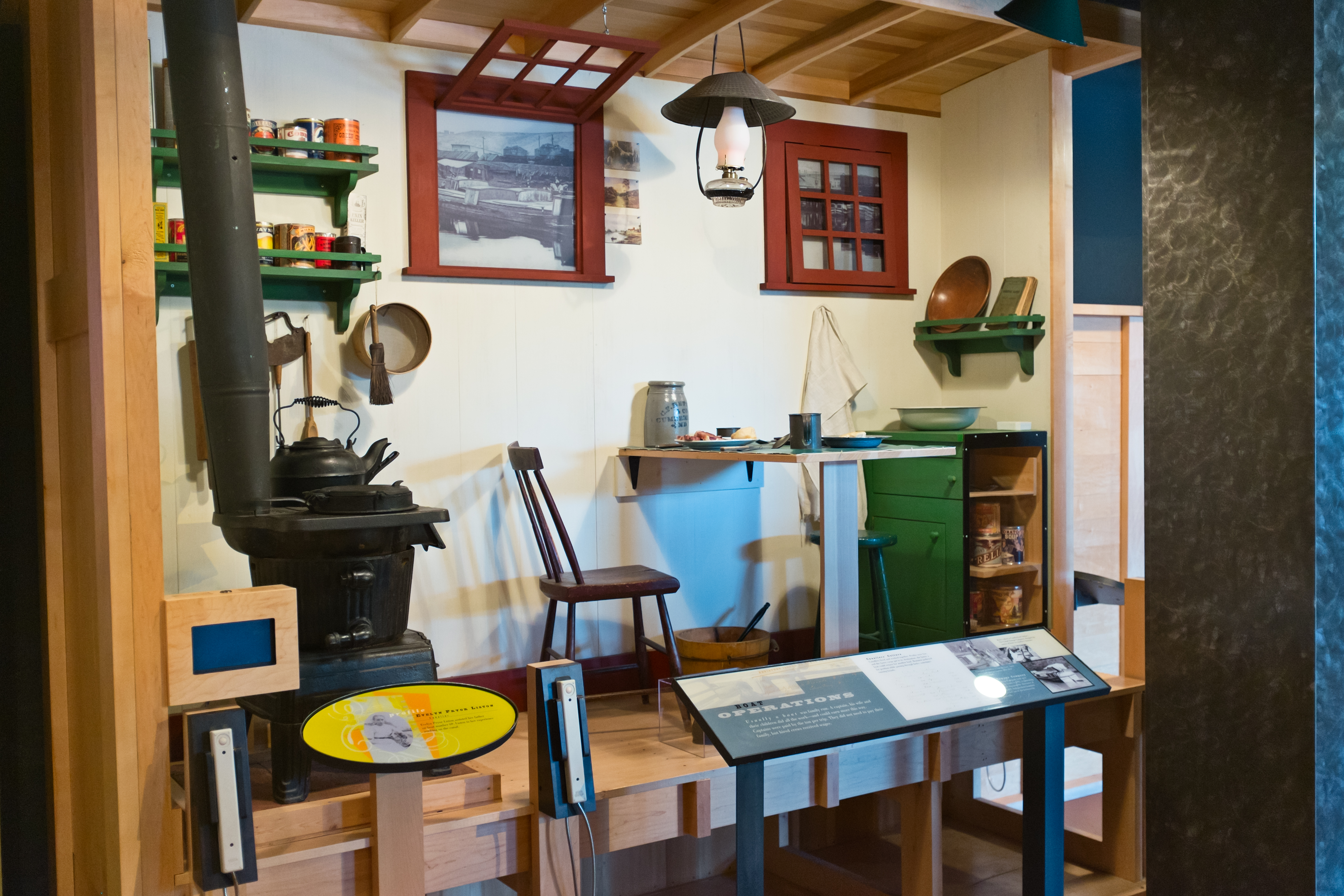 Interior of a Canal boat at National Park Service (US Federal Gov't, so it is public domain) Museum, in Cumberland MD. Note that the interior is all in color, but the scenes through the "windows" are in black in white — in a real setting, everything, including the window scenes, would be in color.